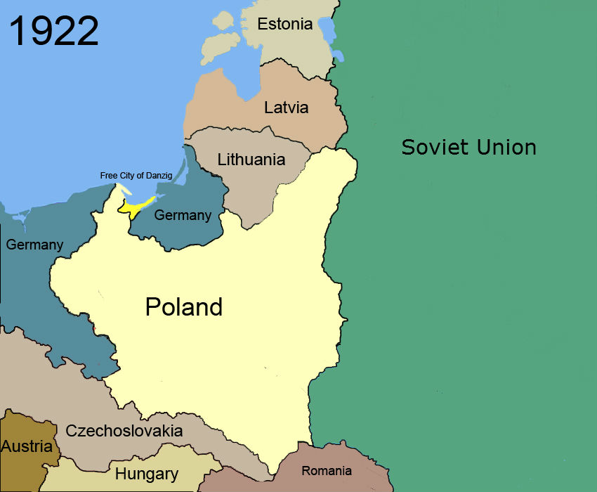 After a variety of delays, a disputed election took place on January 8, 1922, and the Republic of Central Lithuania was annexed to Poland.